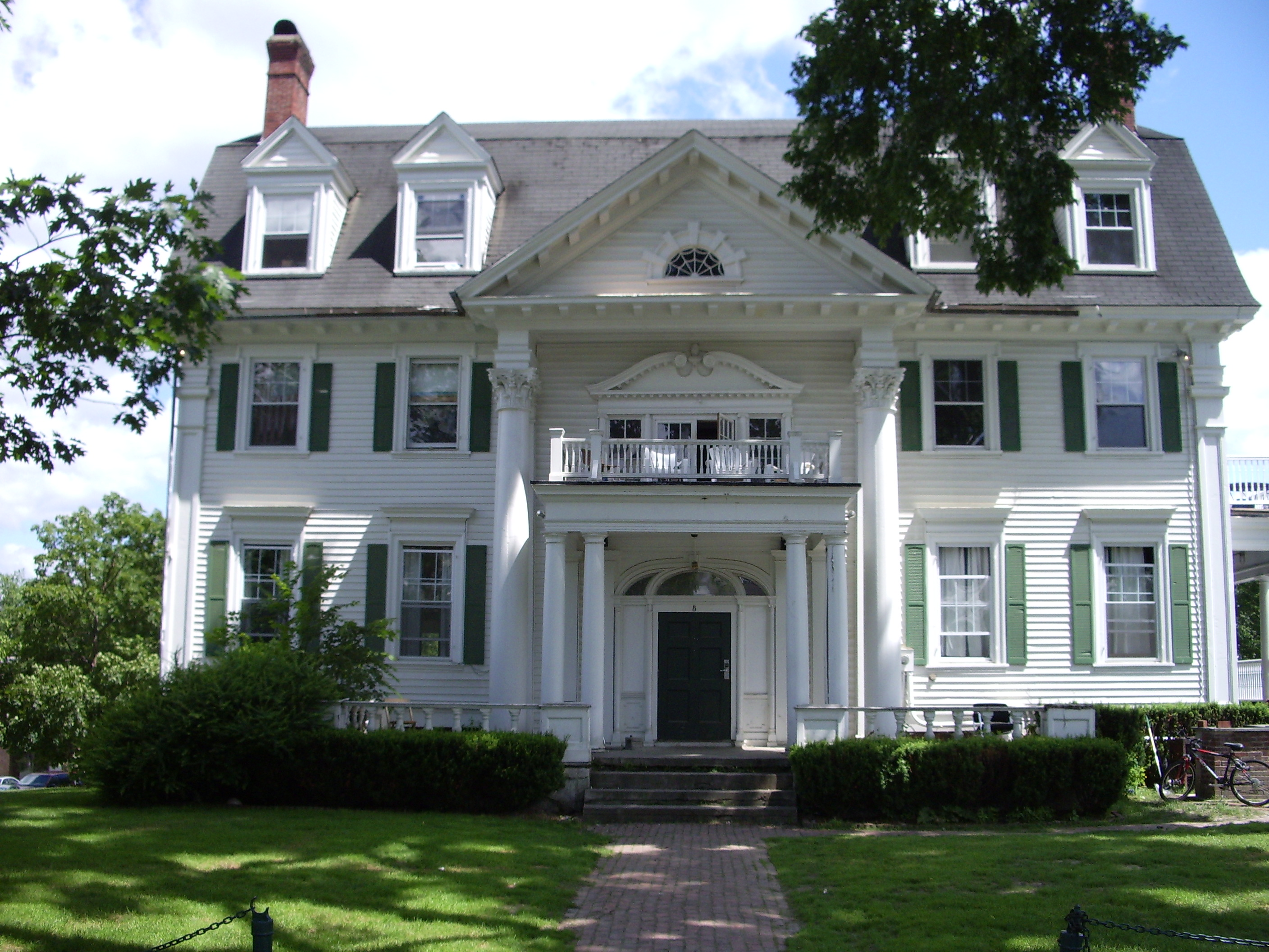 Photograph of Phi Delta Alpha at the campus of Dartmouth College in Hanover, New Hampshire.